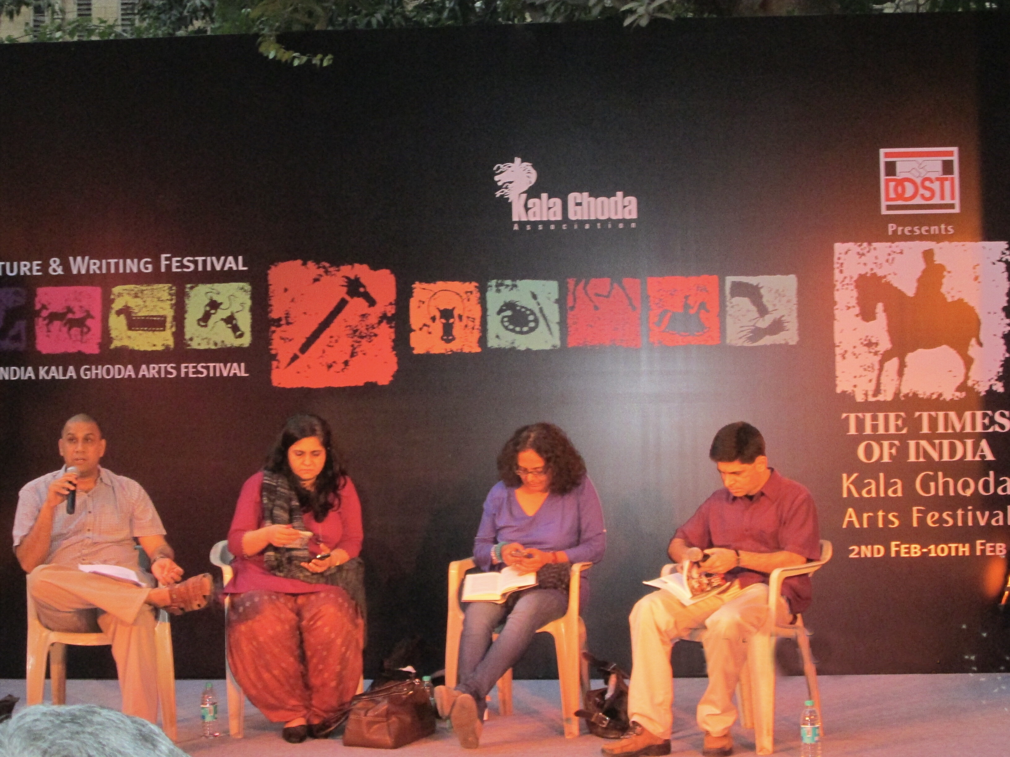 Eminent journalists and authors (L to R) Mr Naresh.Fernandes,Mrs Teesta.Setalvad, Mrs Meena.Menon and Mr Vaibhav.Purandare discussing the "Mumbai Riots 1992/93" at the David Sassoon Library .